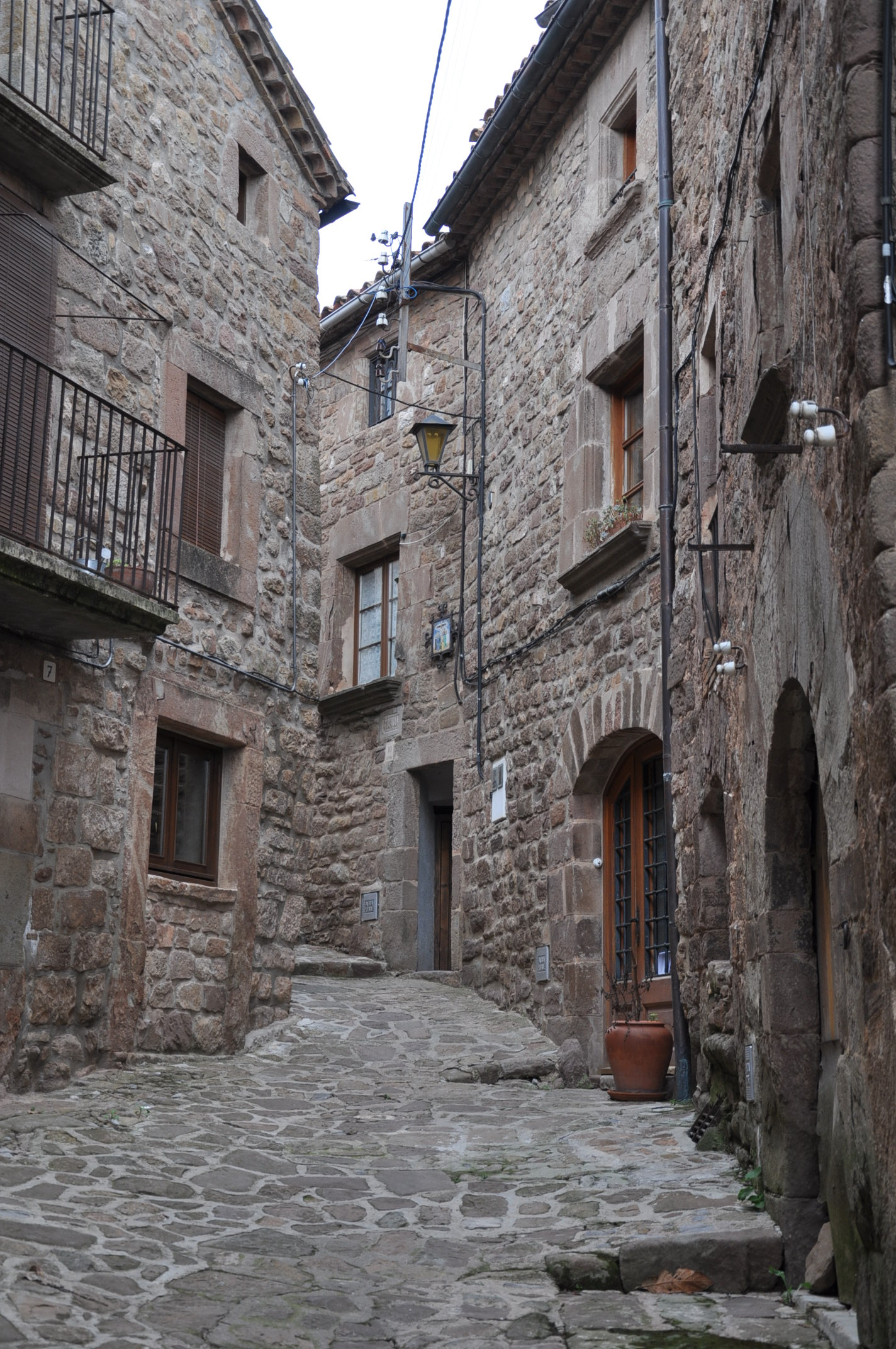 A narrow alley in l'Estany, a village in the comarca of Moianès, Catalonia, Spain, and administratively in the comarca of Bages.